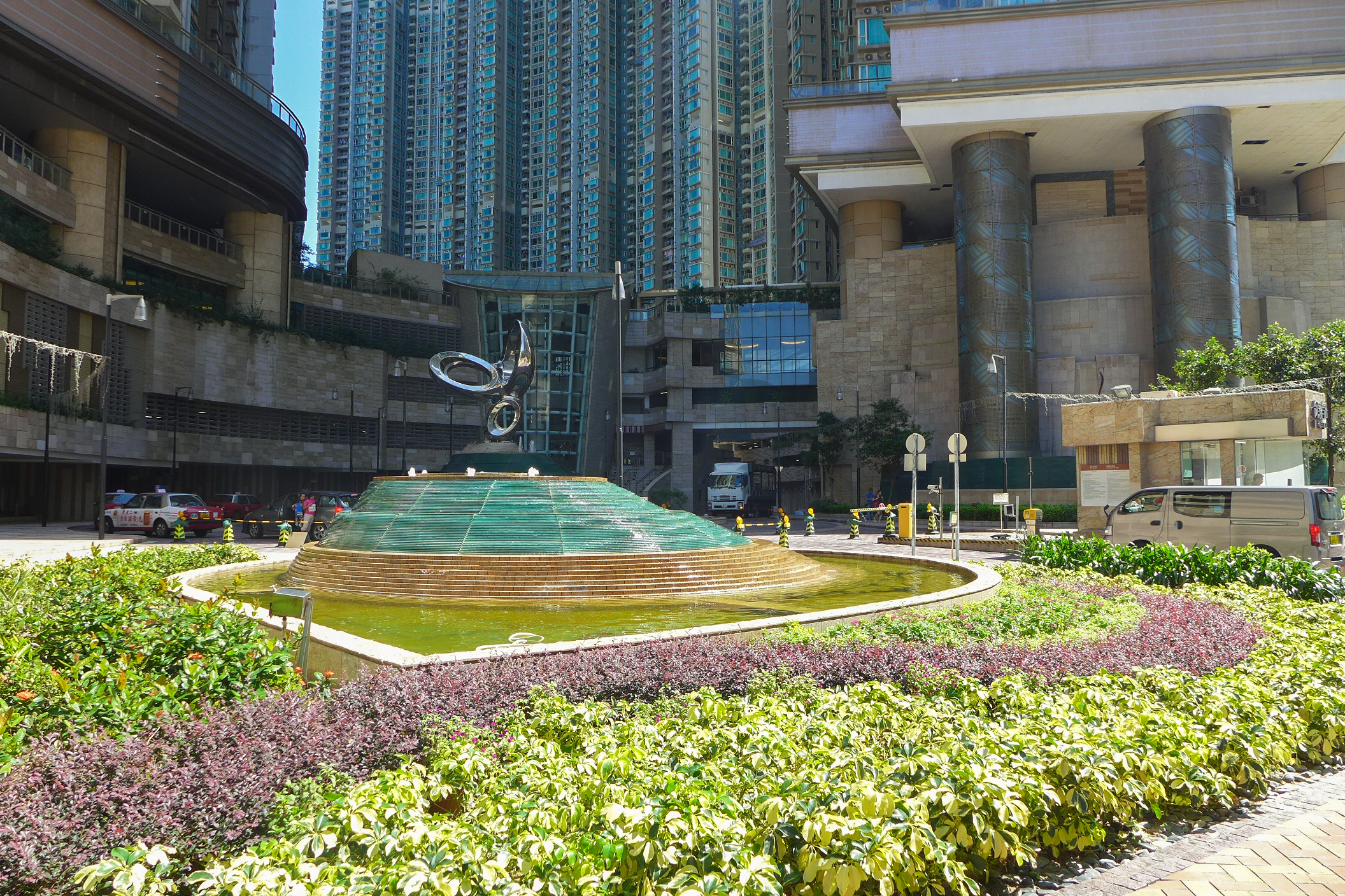 LOHAS Park Phase 2 Entrance